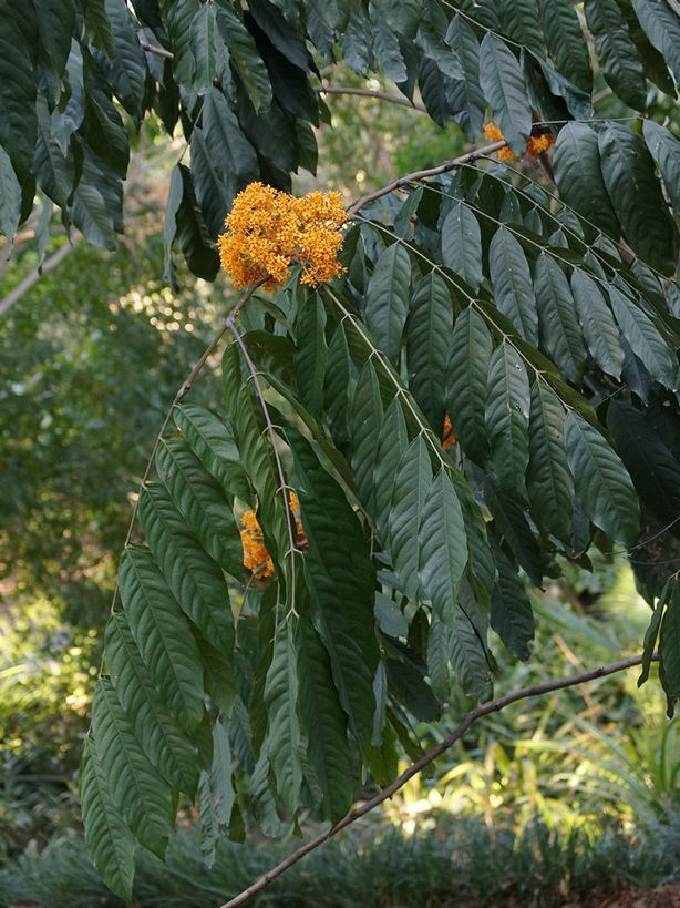 Saraca thaipingensis Evergreen tree native to Malay peninsula. Fabaceae family